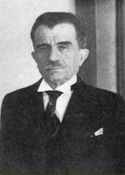 Mehdi Frasheri